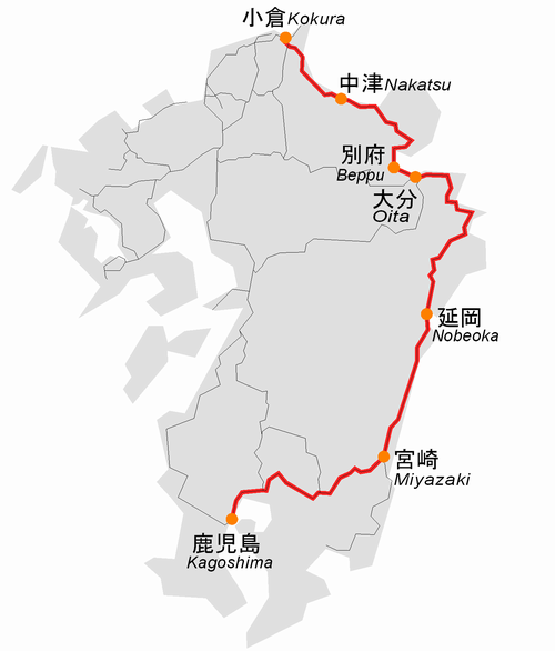 Map of Nippo Main Line , Kyushu Japan.